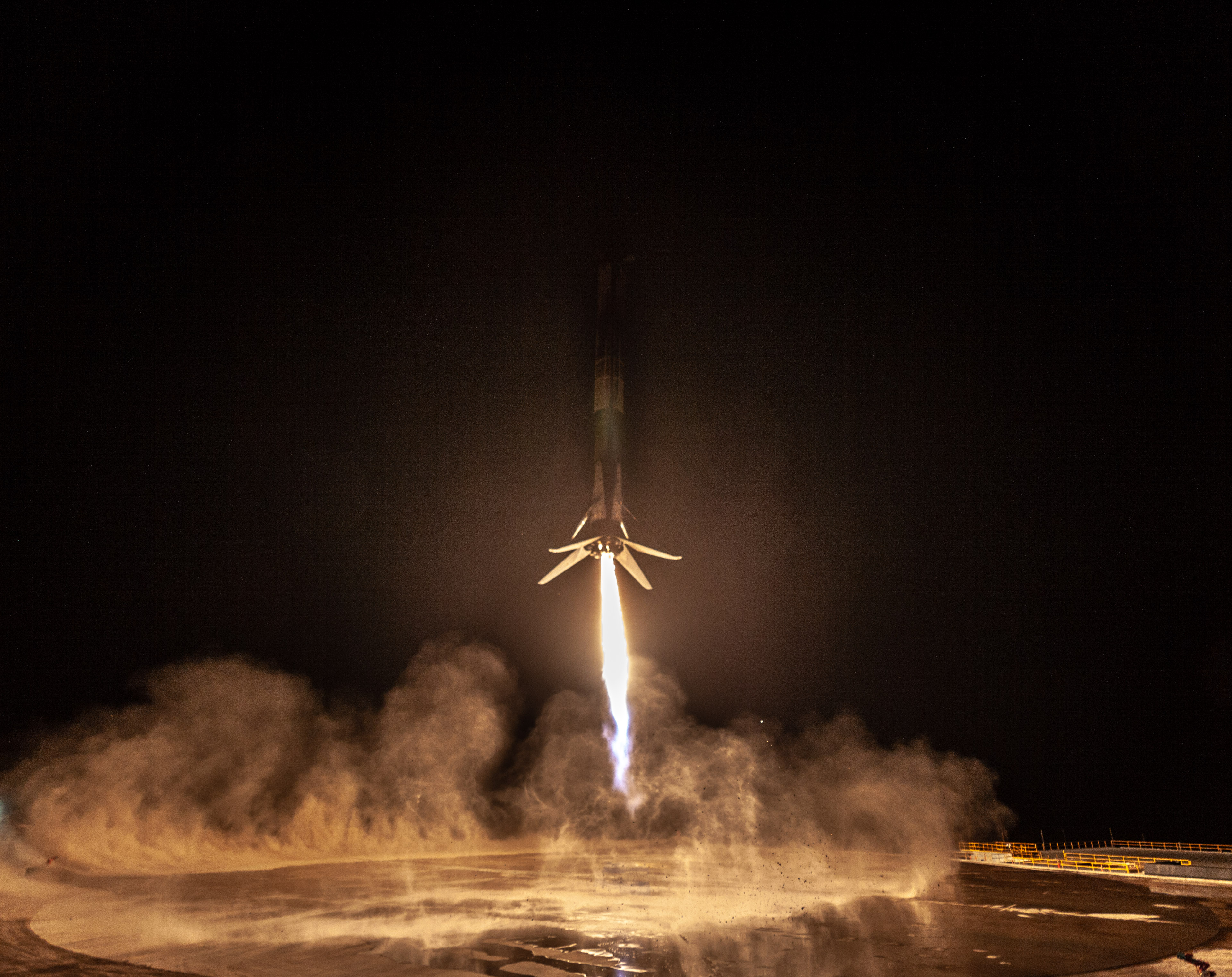 SAOCOM 1A Mission